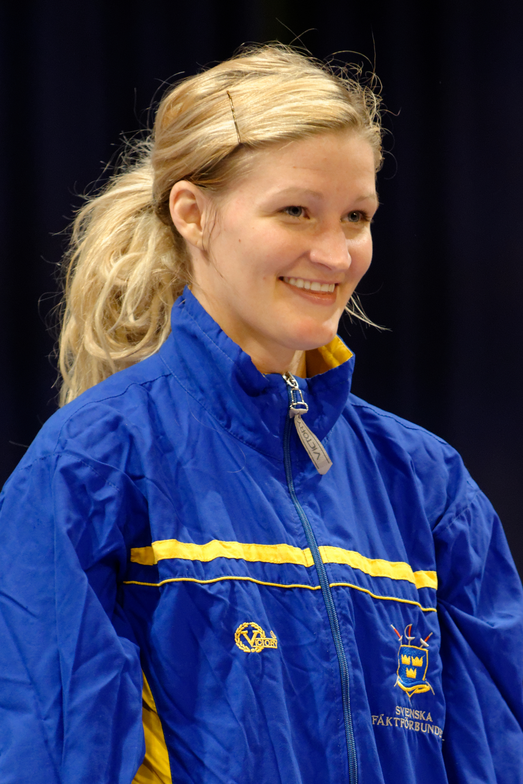 Emma Samuelsson at the trophy presentation–Challenge international de Saint-Maur 2013, women's épée World Cup tournament.